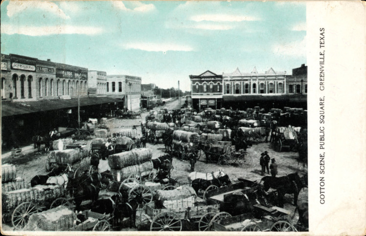 Cotton scene, public square, horses and wagons